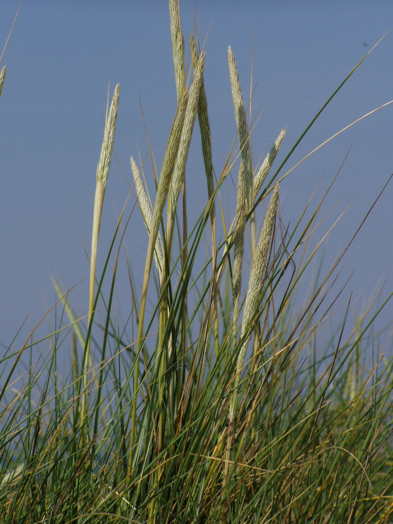 Ammophila arenaria on island Düne near Heligoland